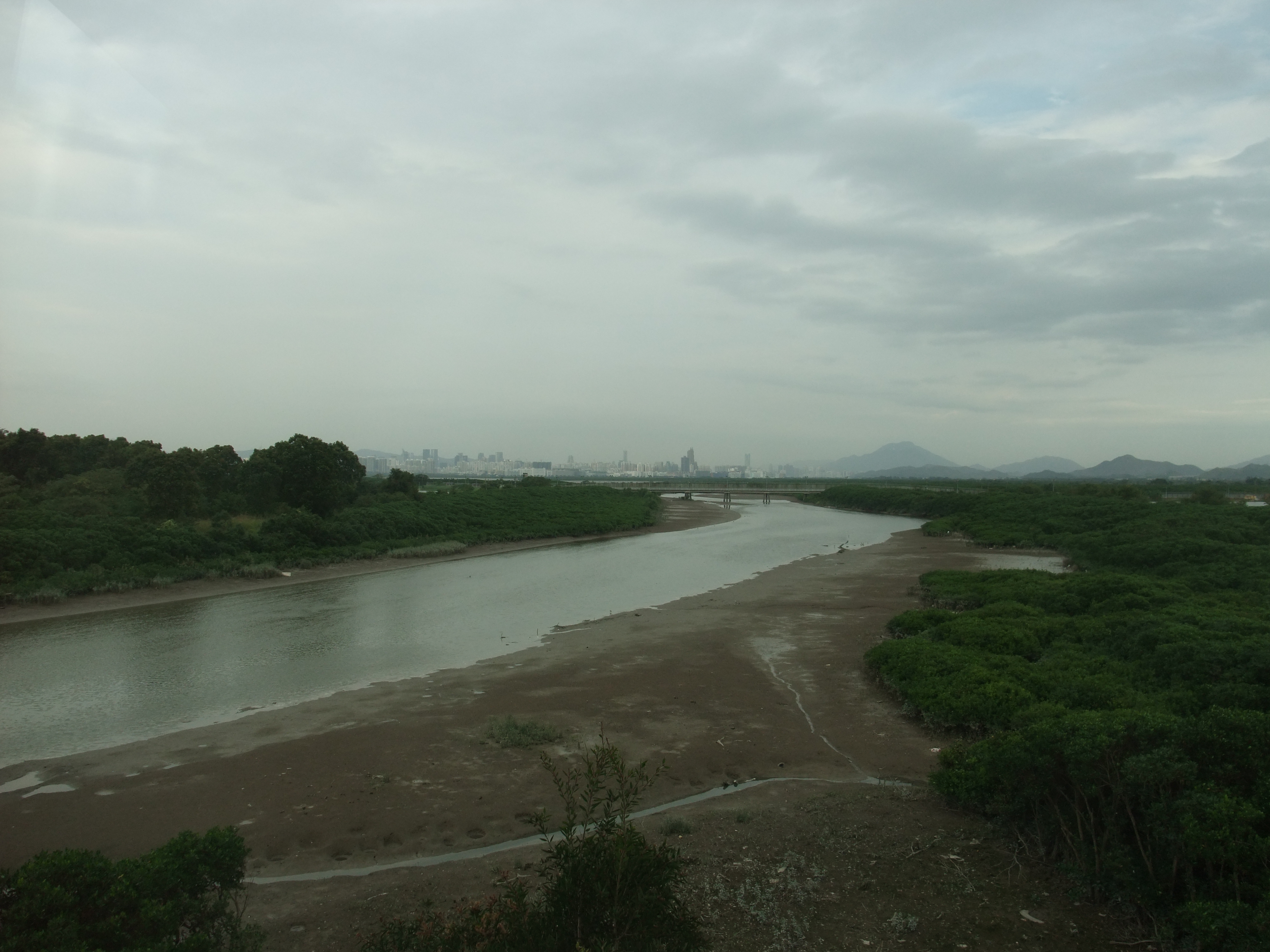 Photo of Tin Shui Wai Nullah